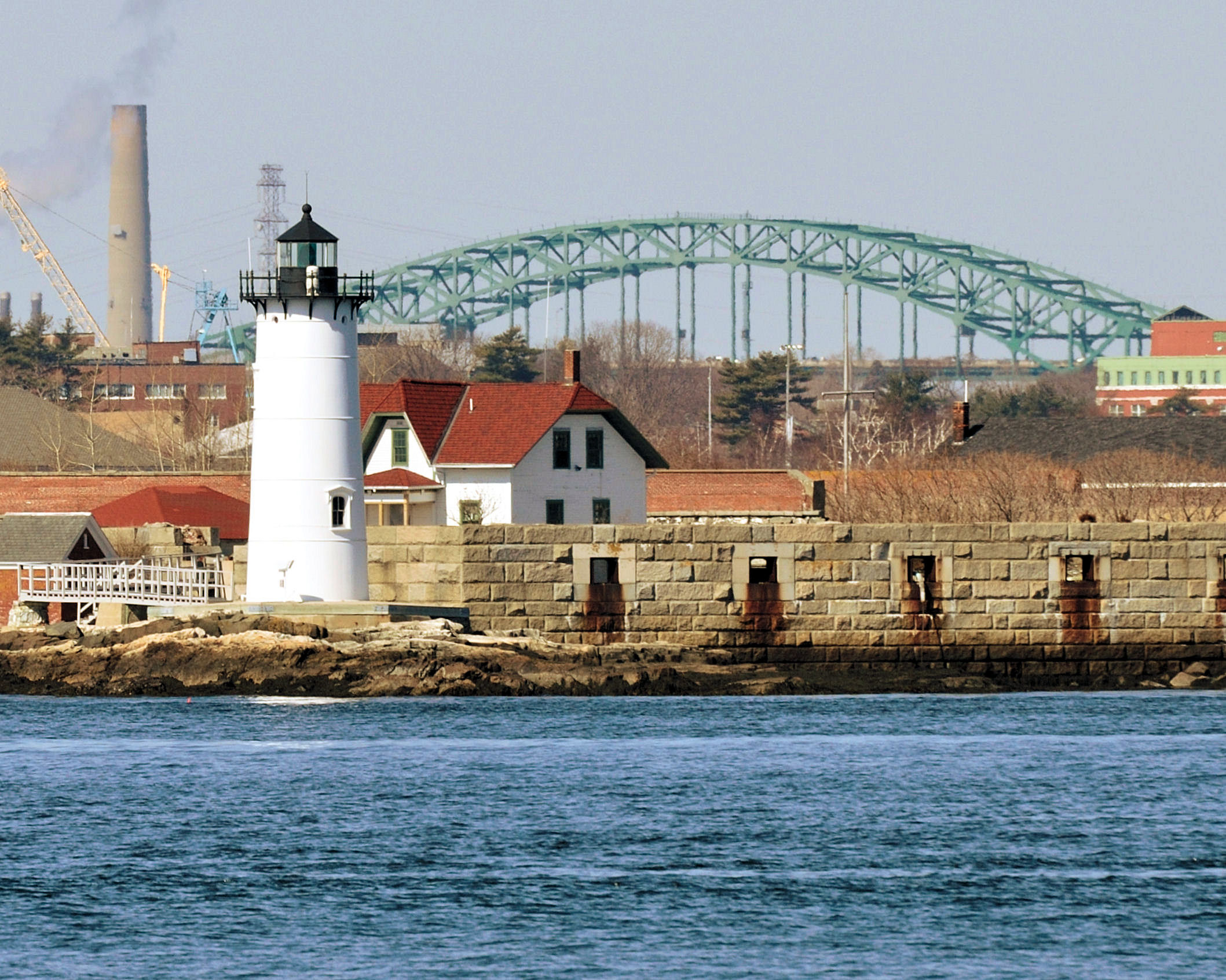 Portsmouth Harbor Light in New Castle, New Hampshire, USA.